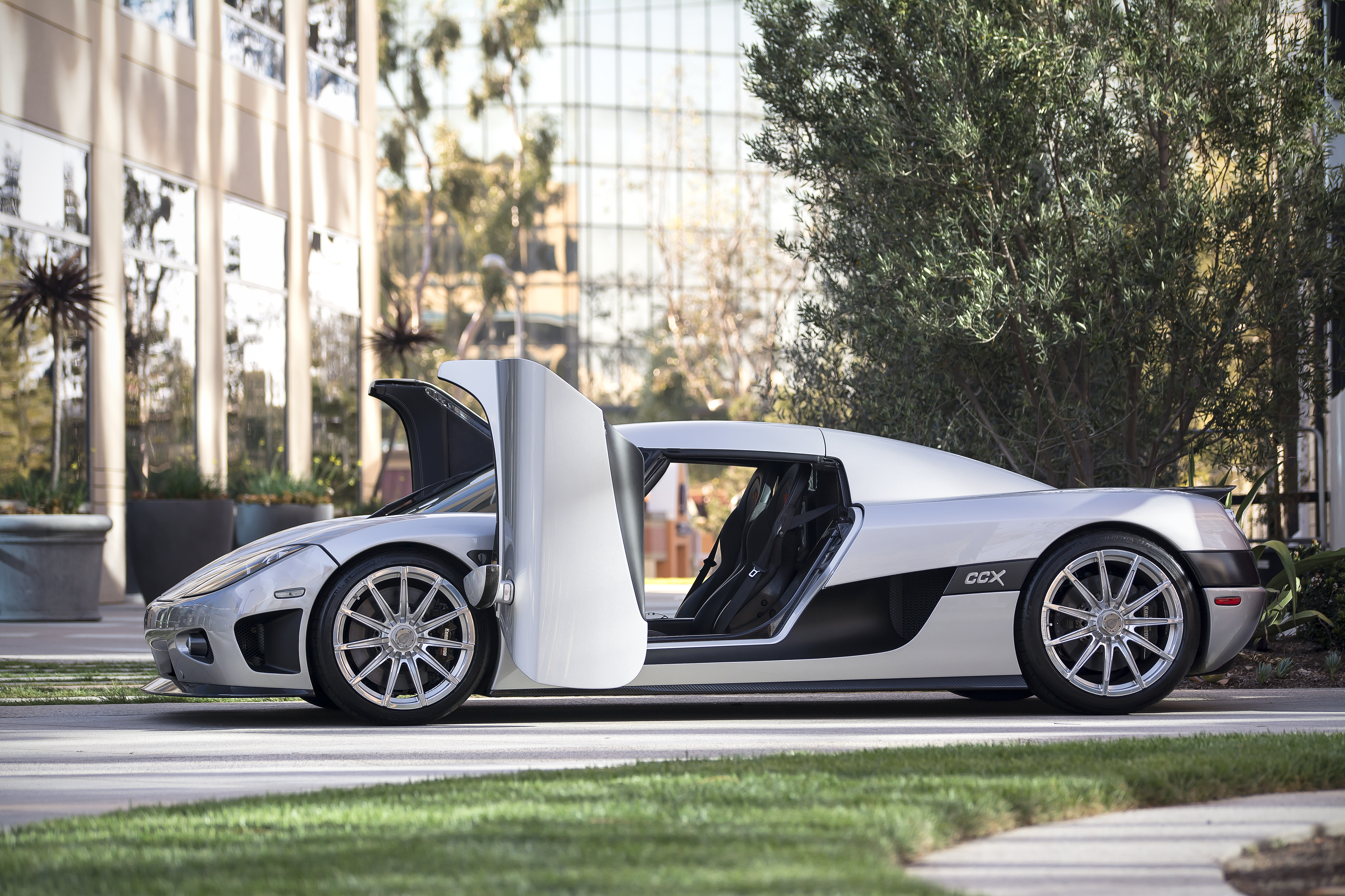 Koenigsegg CCX Not my favorite angle but I love the DOF from my new (well not so new anymore) lens.